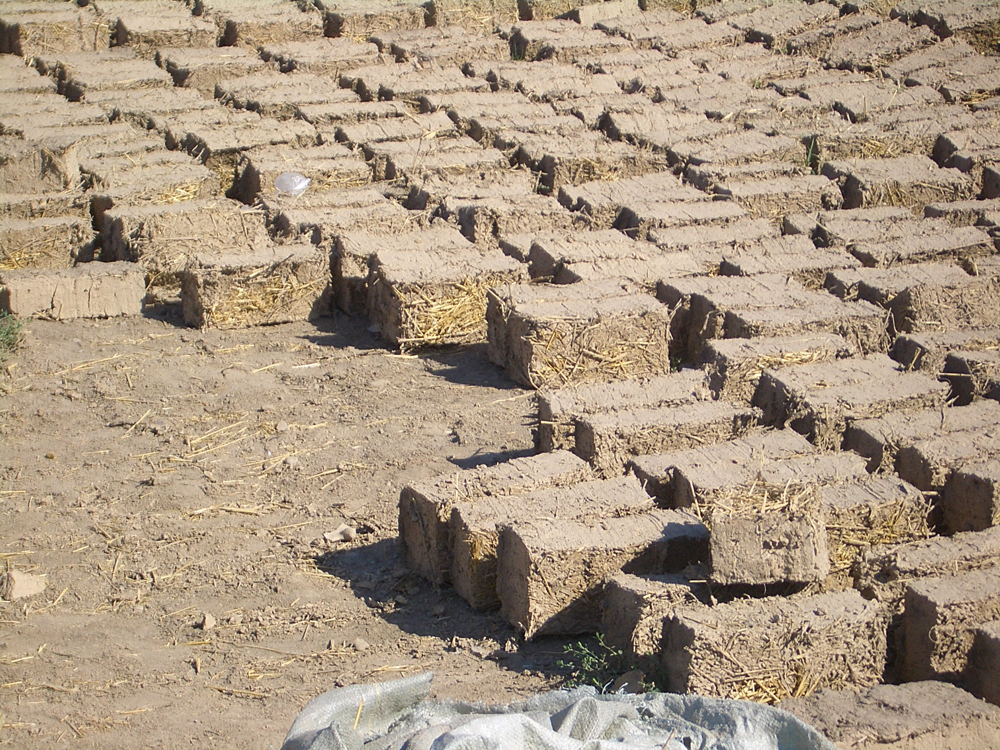 Adobe bricks sitting on the ground near a house construction in Milyanfan village, Kyrgyzstan.